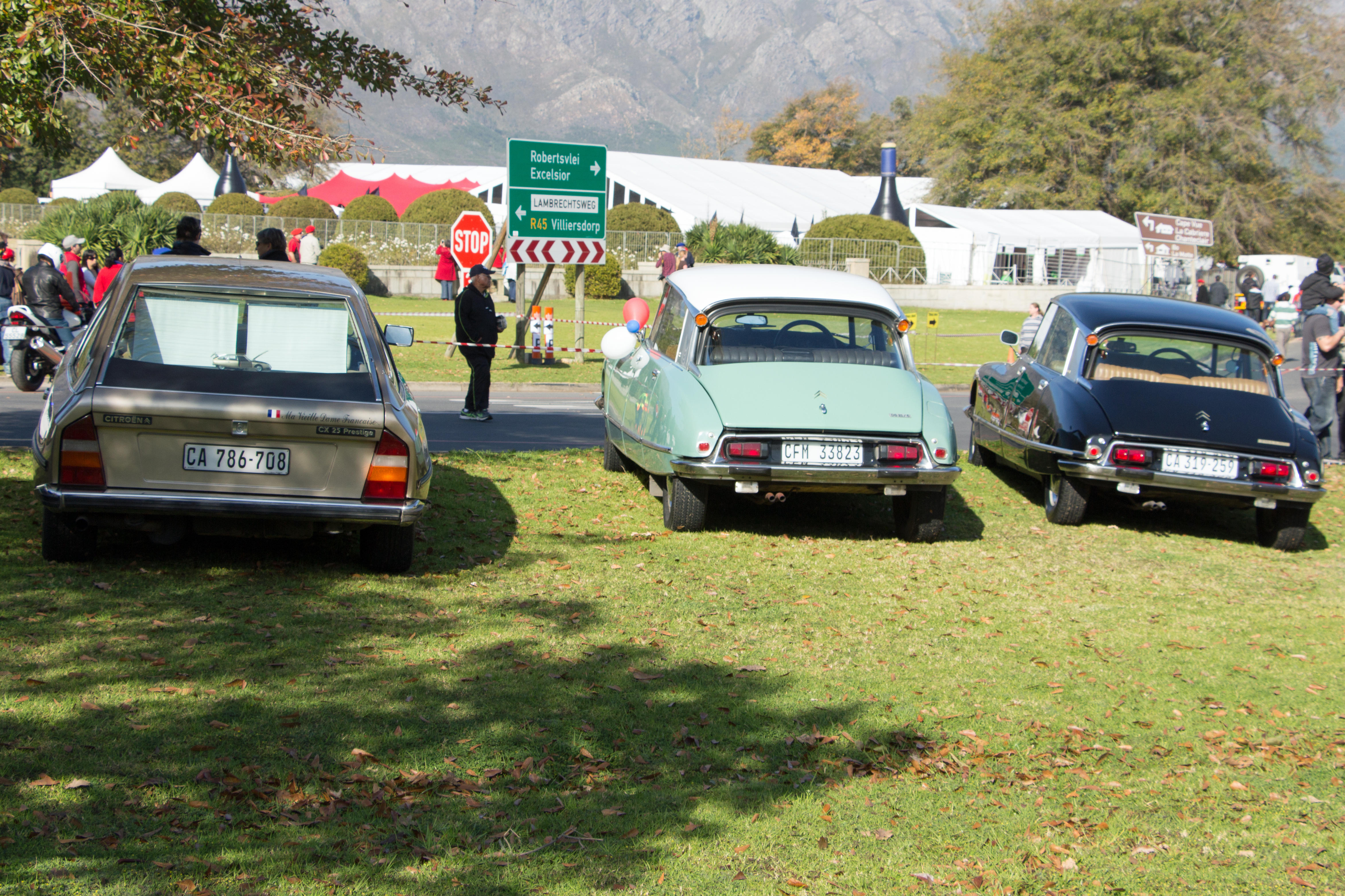 French cars on display at the Franschhoek Bastille Festival 2014